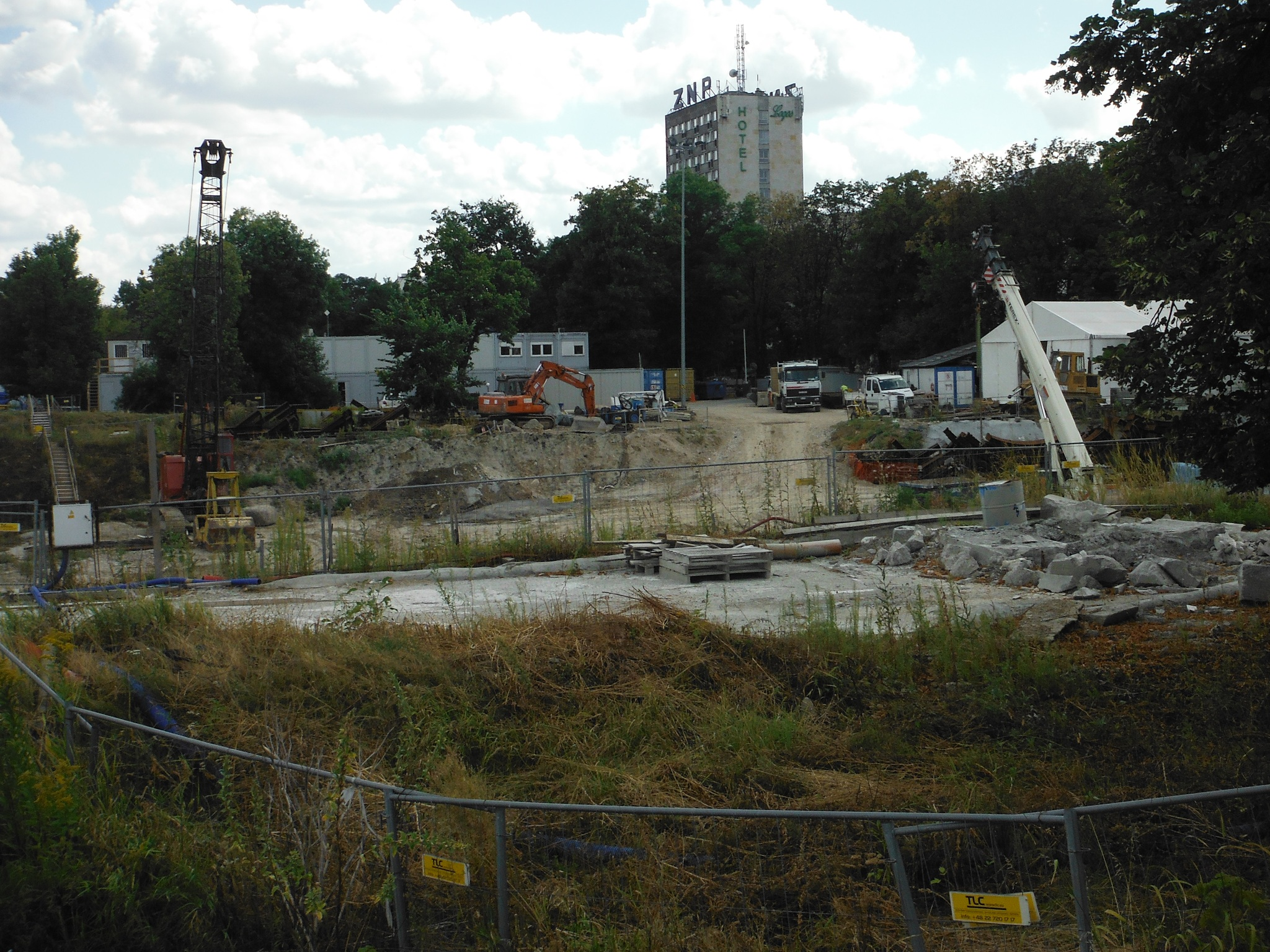 Centrum Nauki Kopernik metro station (under construction) in Warsaw (15th of August 2013).